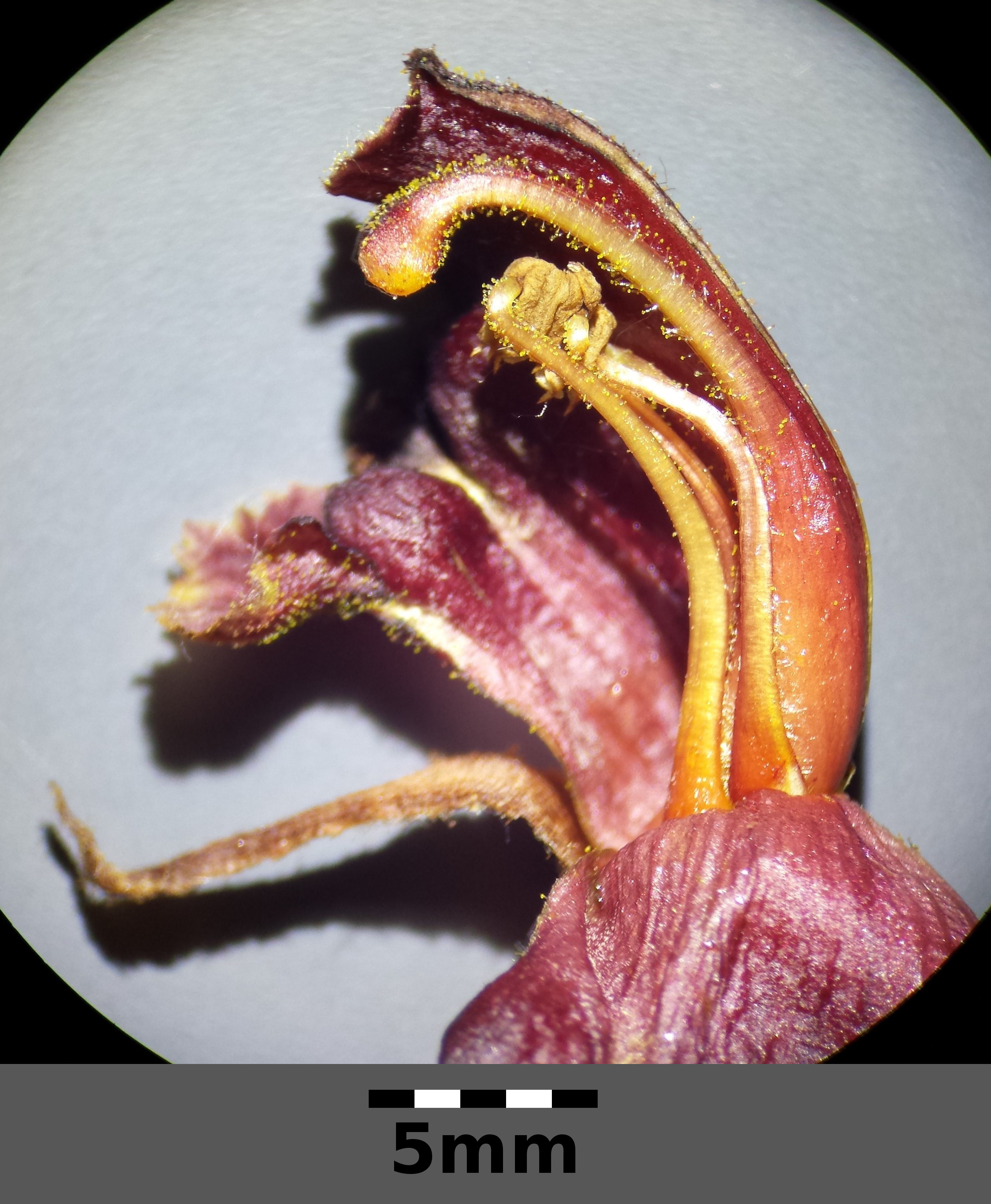 Flower opened Taxonym: Orobanche gracilis ss Fischer et al. EfÖLS 2008 ISBN 978-3-85474-187-9 Location: Neue Donau, district Korneuburg, Lower Austria - ca. 160 m a.s.l. Habitat: dry meadows